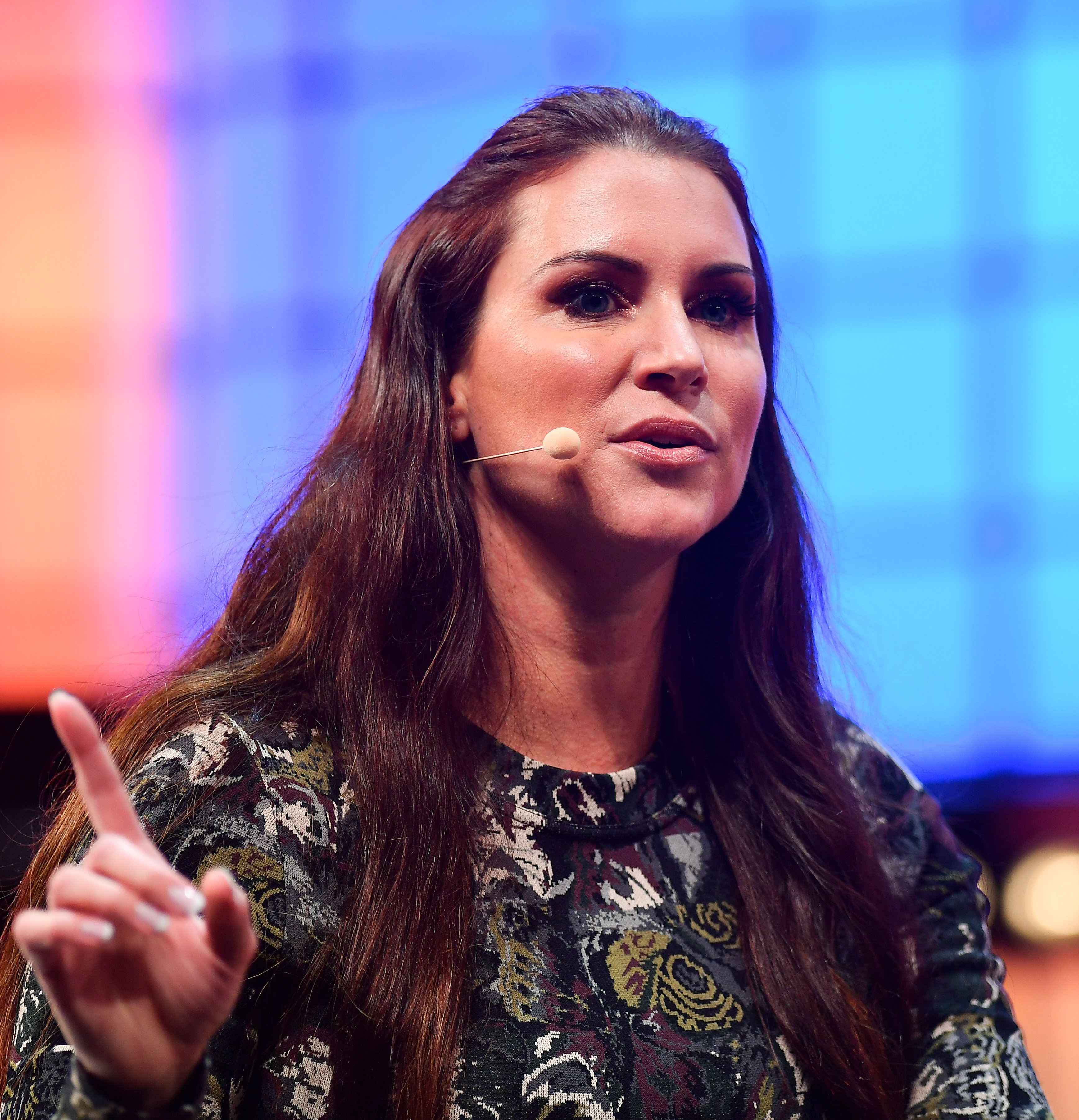 6 November 2018; Stephanie McMahon, WWE on Centre Stage during the opening day of Web Summit 2018 at the Altice Arena in Lisbon, Portugal. Photo by Seb Daly/Web Summit via Sportsfile